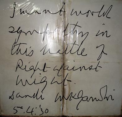 Ghandi's handwriting. The handwriting reads "I want world sympathy in this battle of Right against Might."